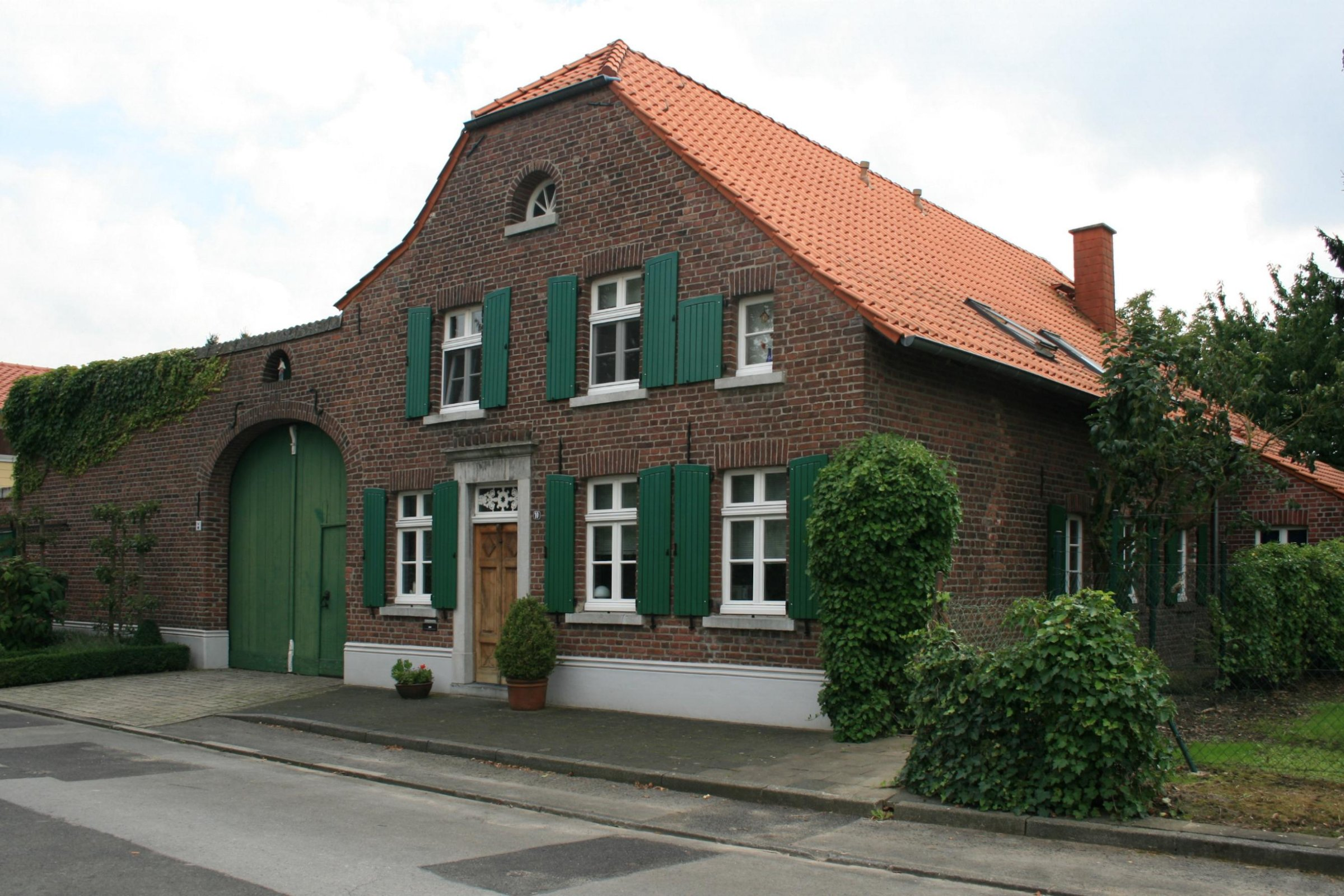 Cultural heritage monument No. Z 001 in Mönchengladbach